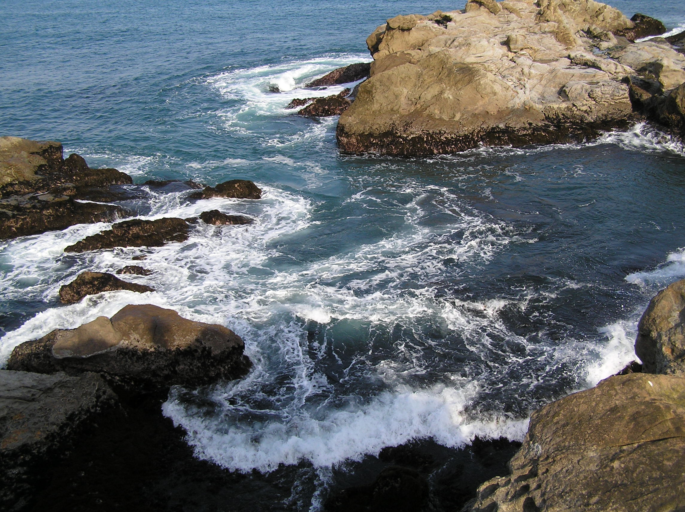 Southwestern coast of Niemonjima.